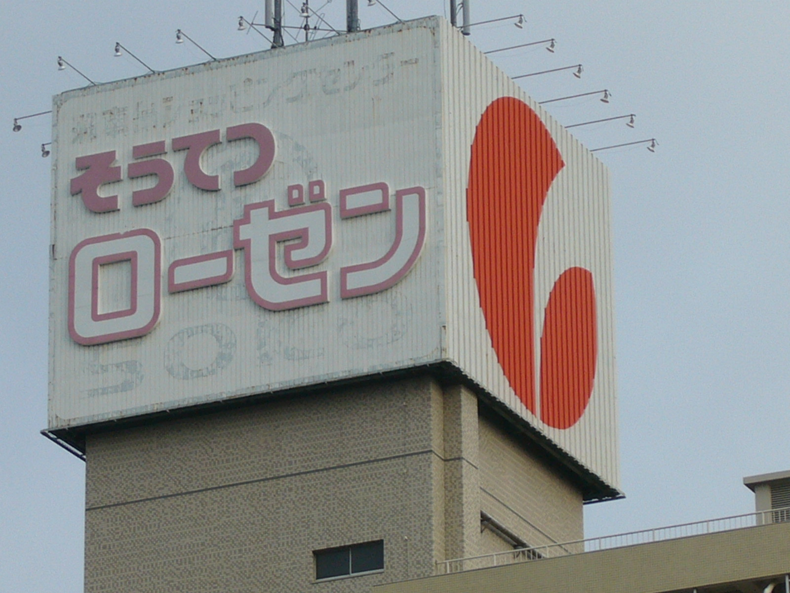 Rooftop sign at Sotetsu Rosen Shonandai store in 2006.